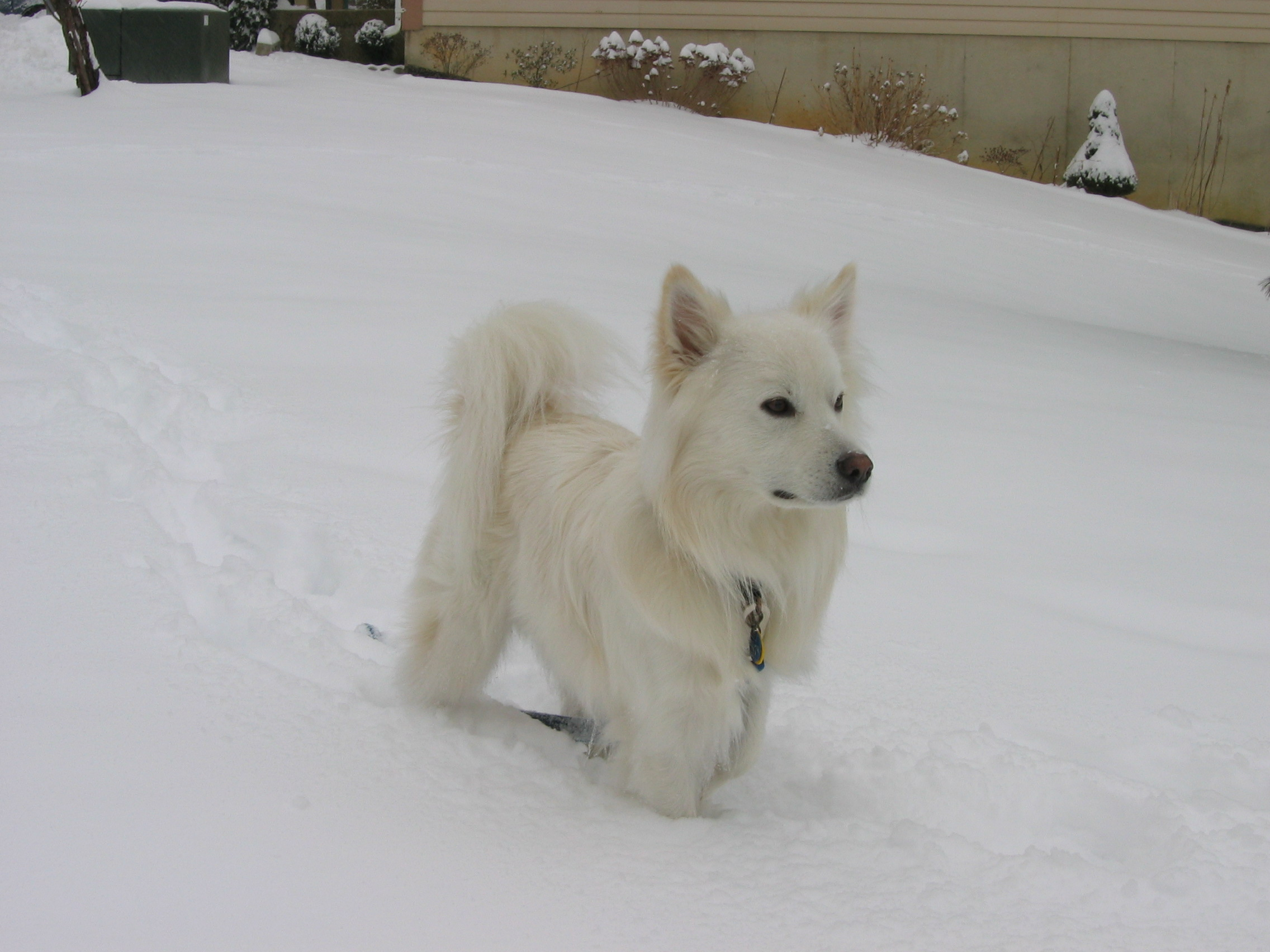 Author: Michael L. Benton Source: original picture of Marie Gravelle's prize-winning American Eskimo Dog, Peary.